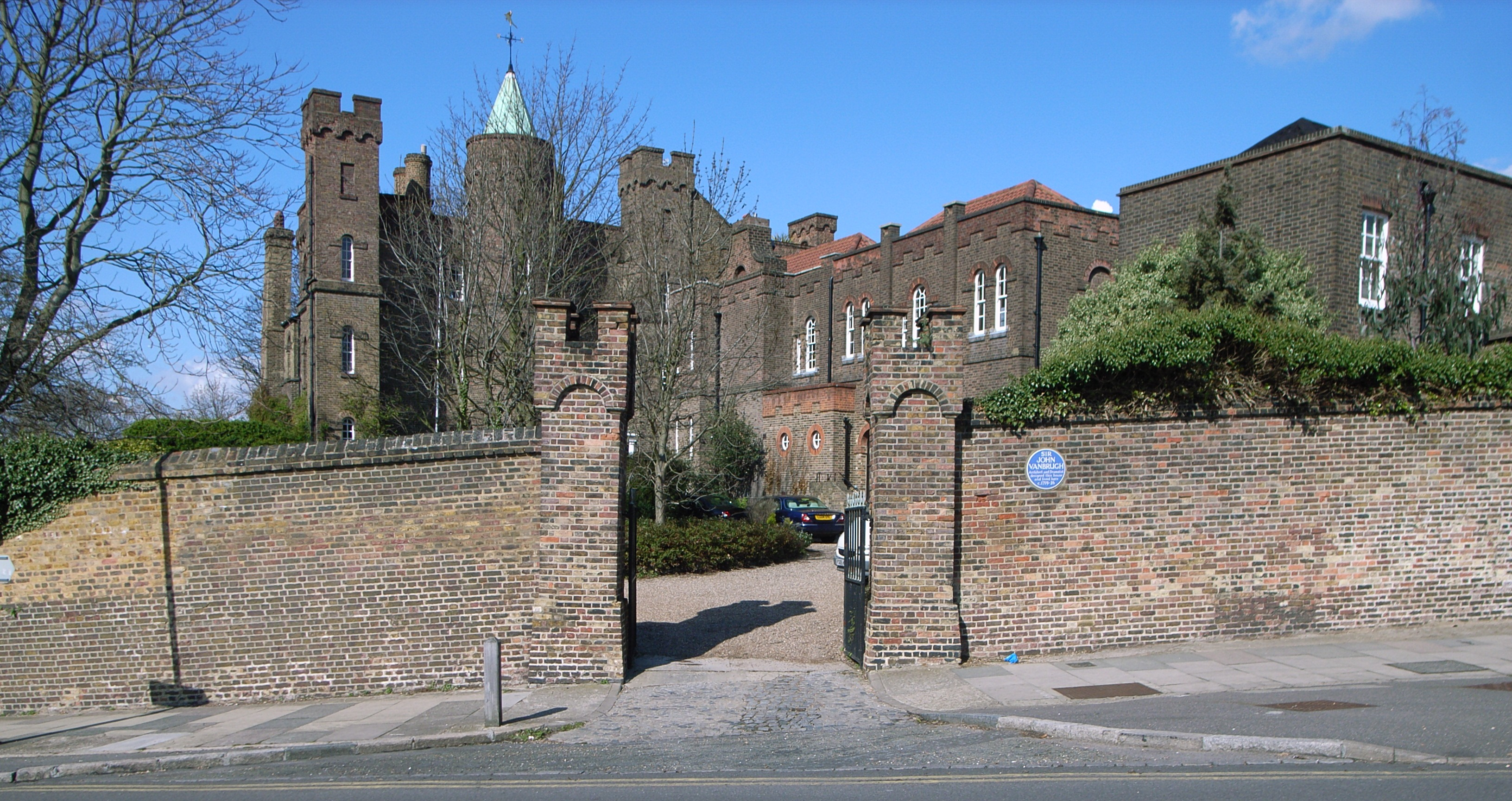 Vanbrugh Castle (1718-26) by John Vanburgh, Greenwich, South London